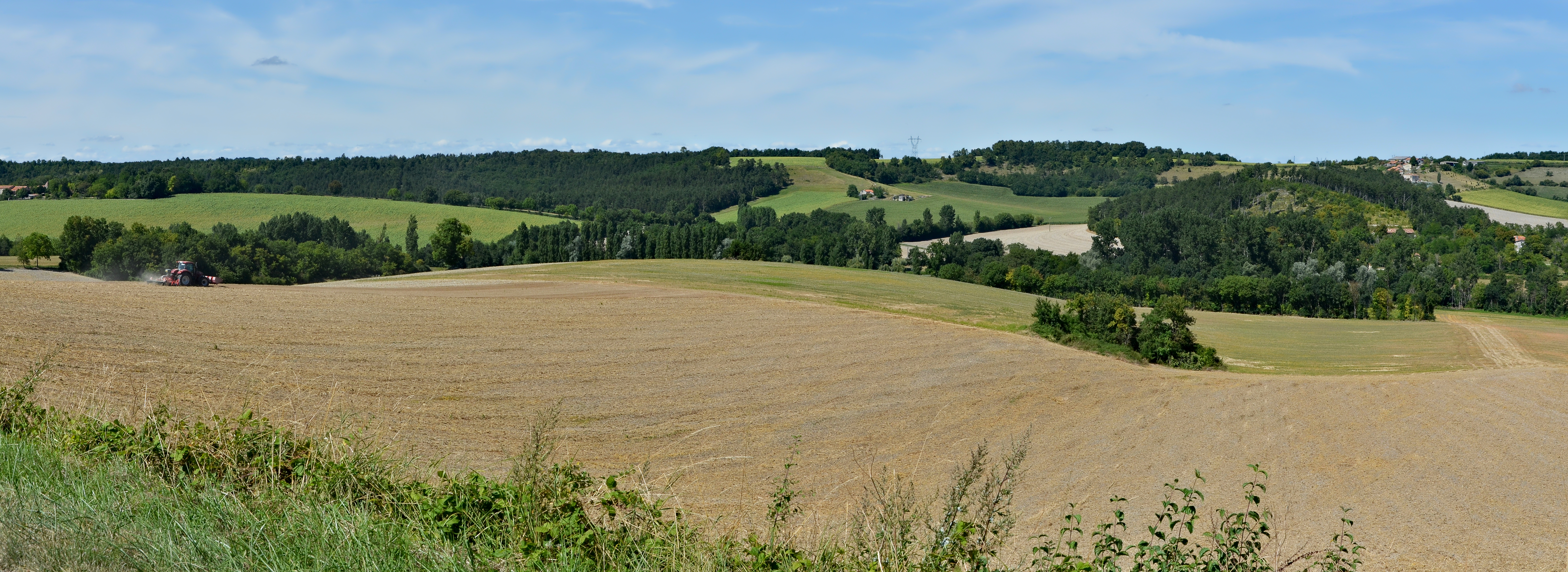 Country landscape along road D 143, Vaux-Lavalette, Charente, France.